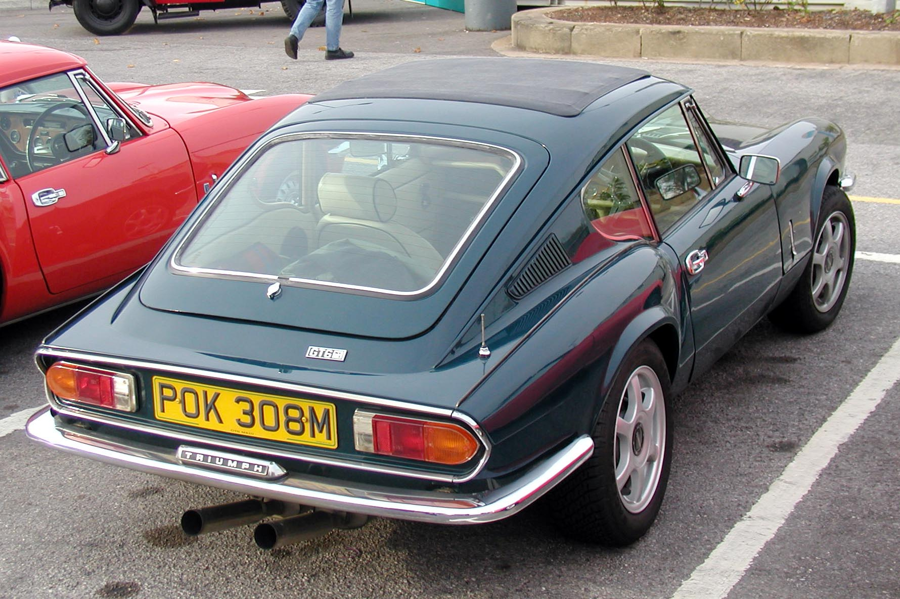 1974 Triumph GT6 Coupe at The Great West Road Run, Aust, Bristol, England.